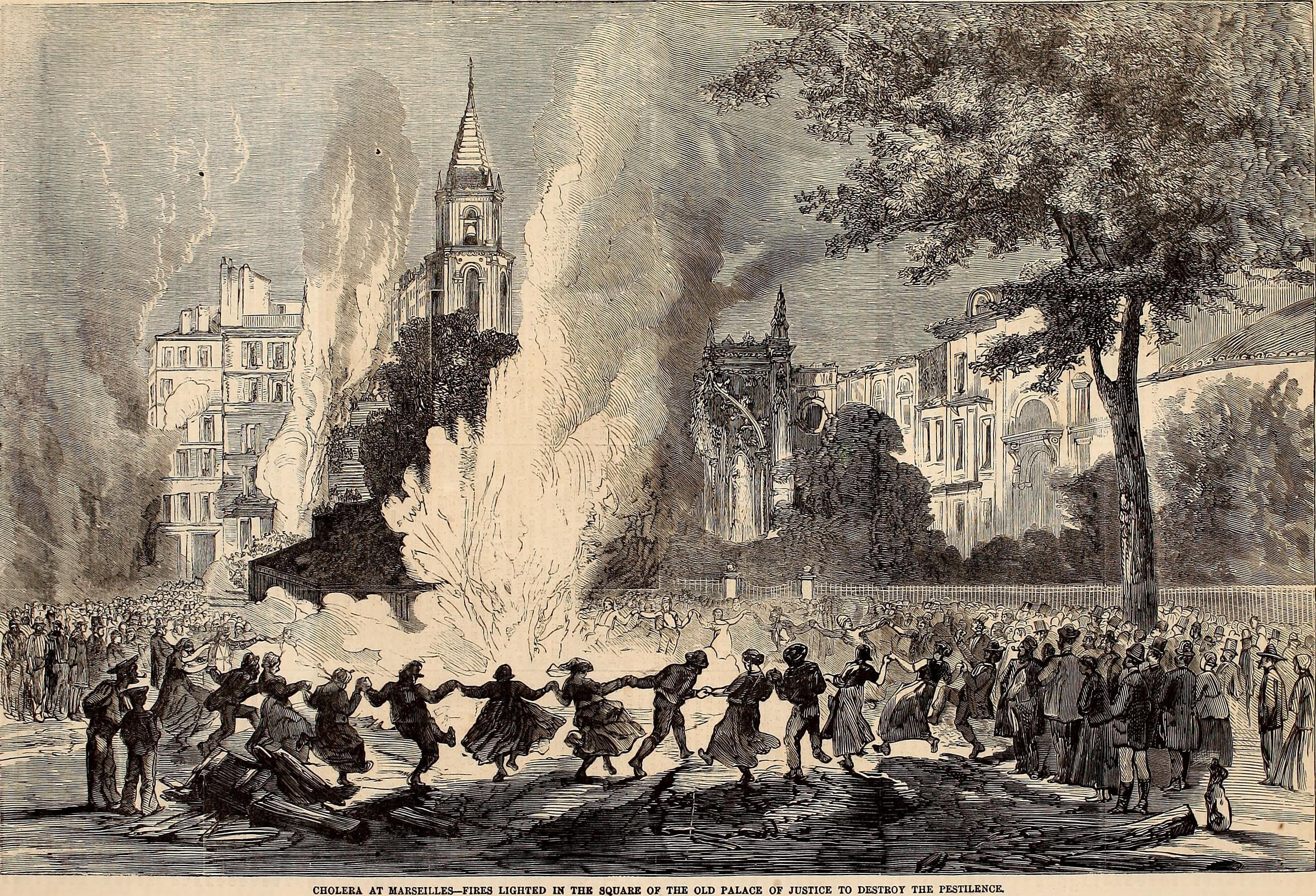 Title: Harper's weekly Year: 1857 (1850s) Authors: Bonner, John, 1828-1899 Curtis, George William, 1824-1892 Alden, Henry Mills, 1836-1919 Conant, Samuel Stillman, 1831-1885? Schuyler, Montgomery, 1843-1914 Foord, John, 1842-1922 Davis, Richard Harding, 1864-1916 Schurz, Carl, 1829-1906 Nelson, Henry Loomis, 1846-1908 Bangs, John Kendrick, 1862-1922 Harvey, George Brinton McClellan, 1864-1928 Hapgood, Norman, 1868-1937 Subjects: Publisher: New York : Harper & Brothers Text Appearing Before Image: HARPERS WEEKLY. (November 18, 1865. Text Appearing After Image: , ;,„■...*,.. November 18, 1865.) HARPERS WEEKLY.